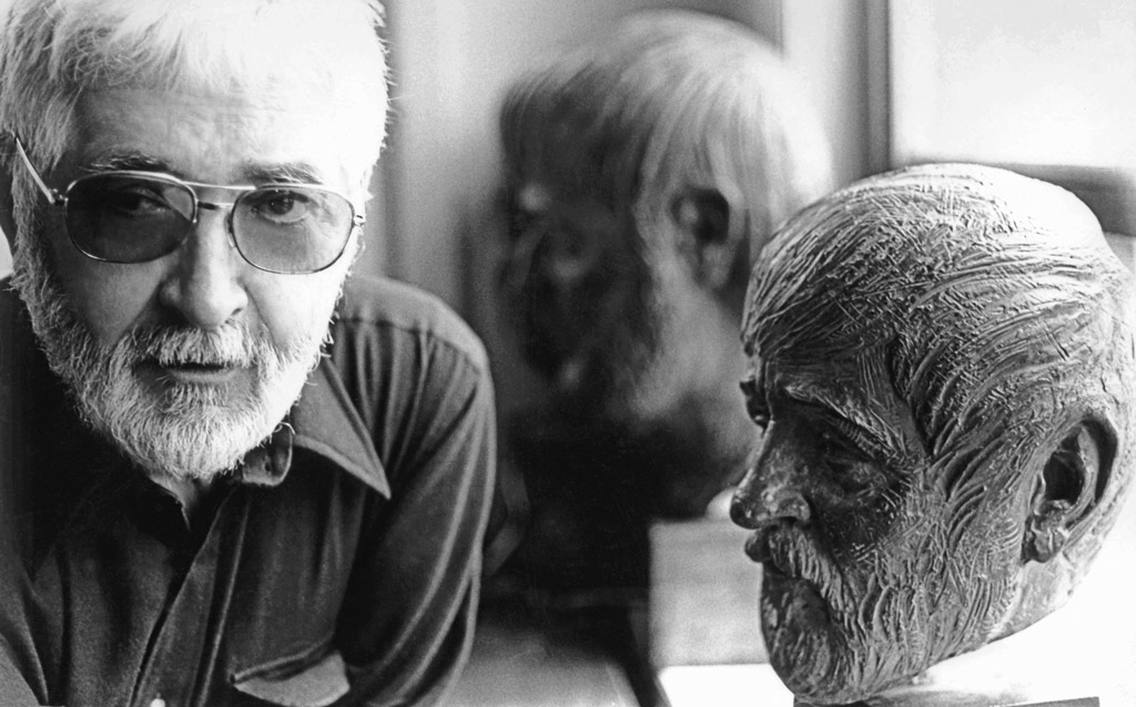 Jacques Hnizdovsky next to the bust created of him by the sculptor Domenico (Aurelio) Facci